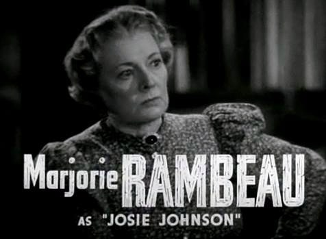 Marjorie Rambeau in 20 Mule Team (1940) - trailer (cropped screenshot)